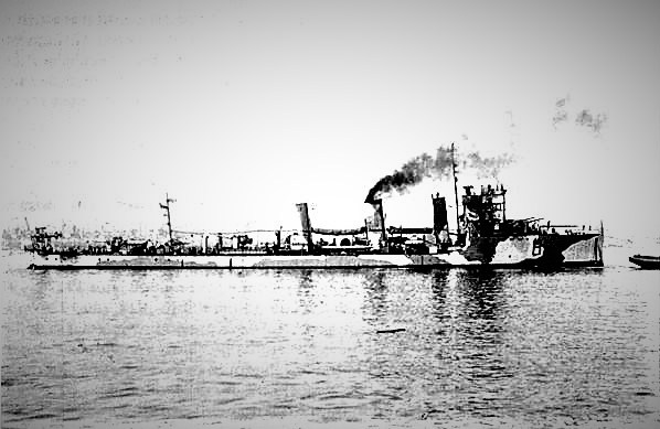 The destroyer Angelo Bassanini with camouflage in navigation